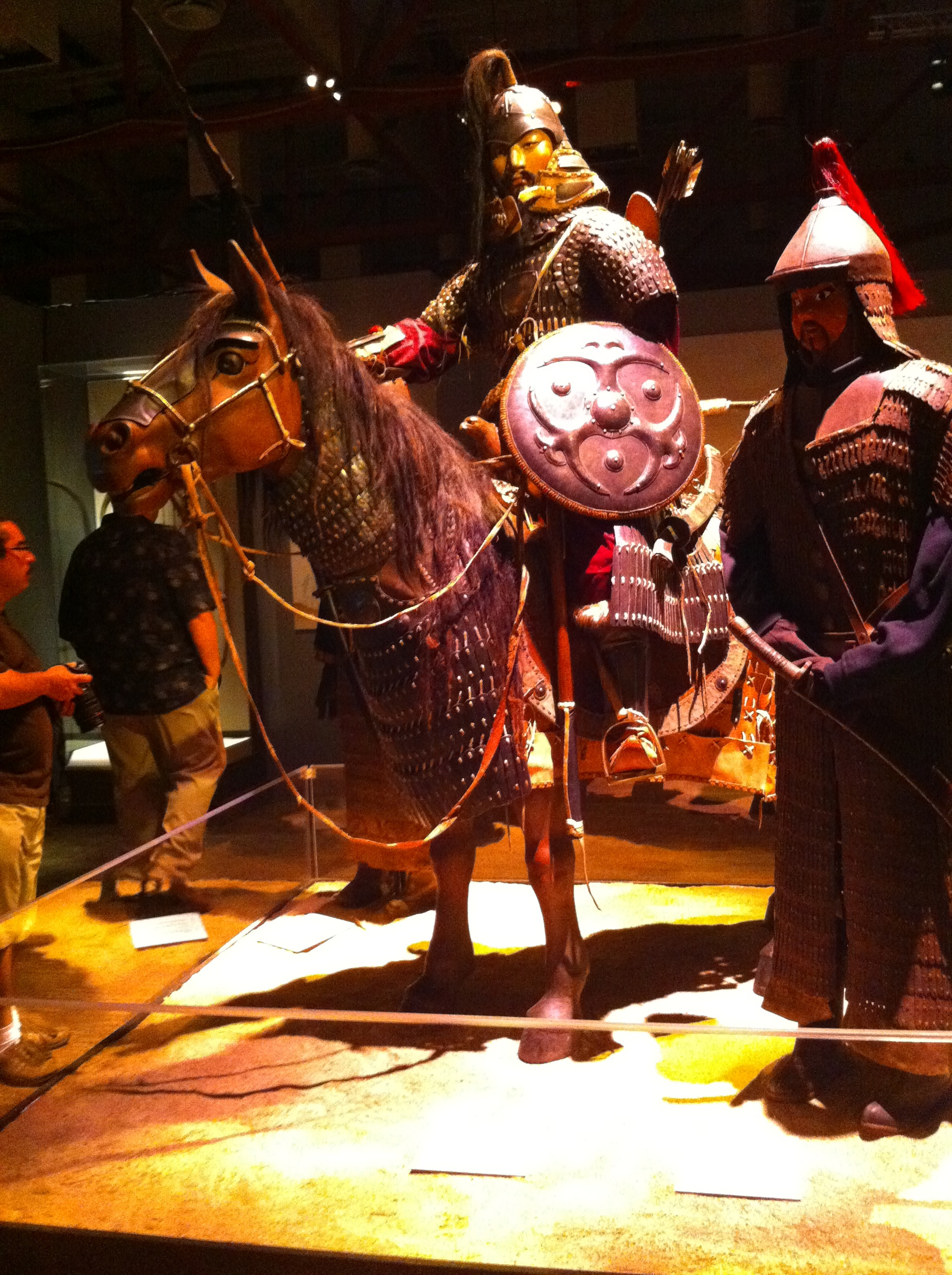 Armor Display, Genghis Khan Exhibit, Tech Museum San Jose, 2010